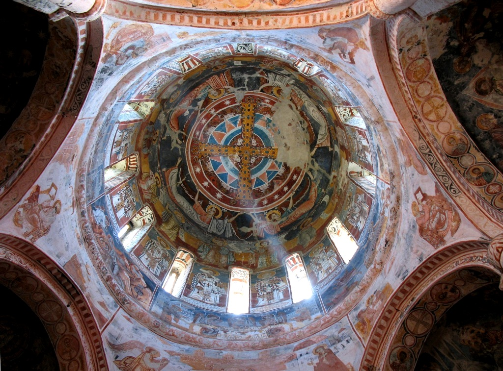 Nikortsminda Cathedral